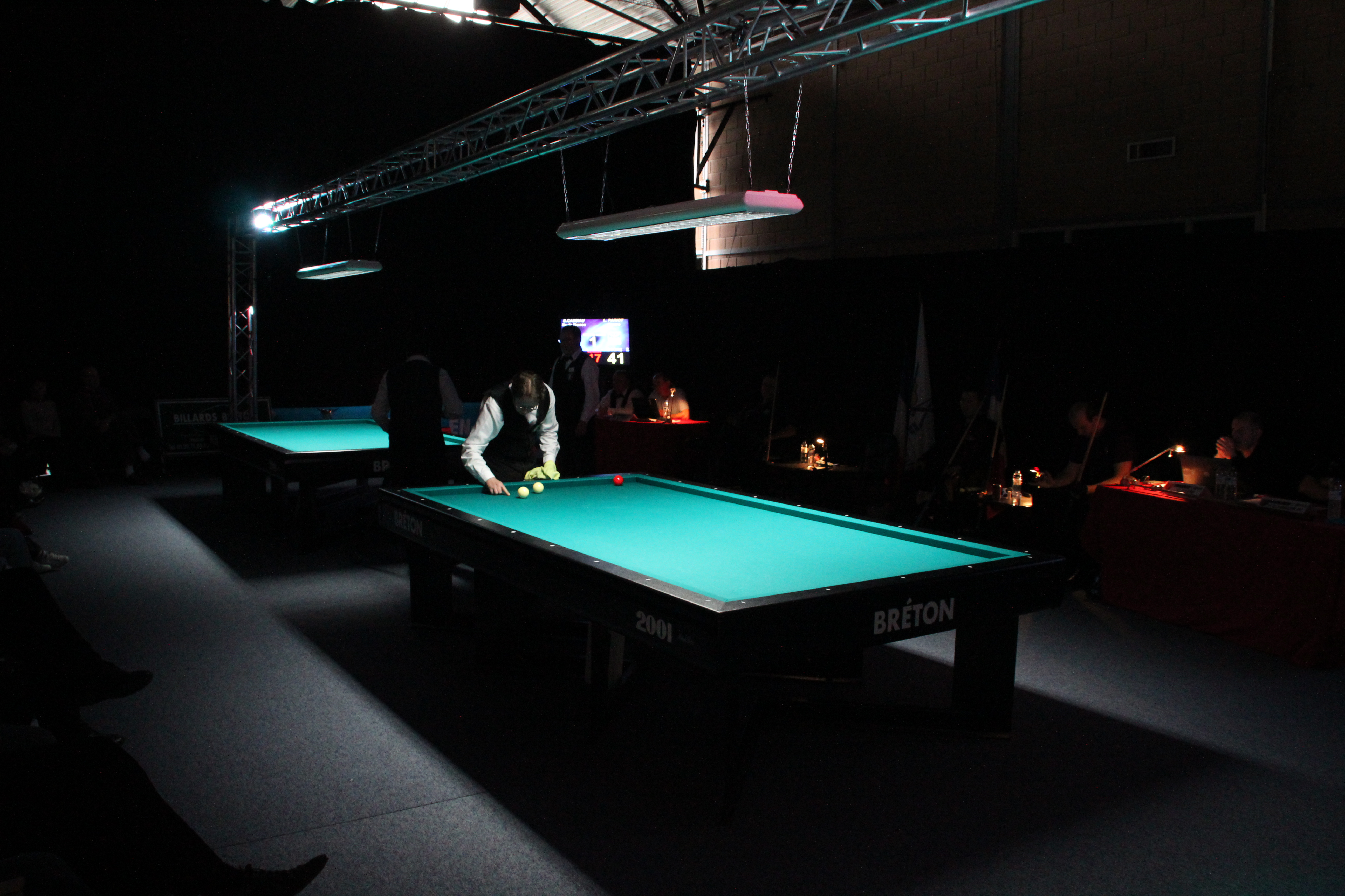 French championships of carom billiards 2012 in Voisins-le-Bretonneux.